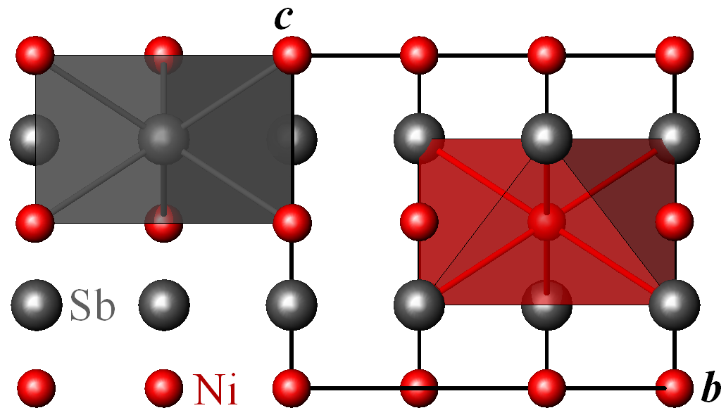 Crystal structure of Breithauptite, NiSb, P63/mmc, projected onto the (b,c) plane. Gray: antimony atoms, red: nickel atoms. Data source: R. Leubolt, H. Ipser, P. Terzieff, K. L. Komarek, "Nonstoichiometry in B8-Type NiSb", Zeitschrift für Anorganische und Allgemeine Chemie, 533(2), 1986: 205-214